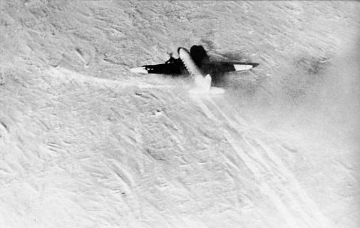 The U.S. Navy Douglas R4D-5L Que Sera Sera (BuNo 12418, c/n 9358, ex USAAF 42-23496) landing at the South Pole as seen from an U.S. Air Force Douglas C-124 Globemaster. This aircraft was the first aircraft to land on the South Pole on 31 October 1956. Crew: pilot LCdr. Conrad S. Shinn; copilot Capt. William. M. Hawkes; navigator Lt. John Swadener; crew chief AD2 John P. Strider; radioman AT2 William Cumbie; Rear Adm. George J. Dufek, Commander Task Force 43 and Commander Naval Support Forces, Antarctica; and Capt. Douglas L. L. Cordiner, Commanding Officer of Antarctic Development Squadron 6 (VX-6). These were the first people to stand at the South Pole since January 1912. The aircraft is today on display at the National Museum of Naval Aviation, at Pensacola, Florida (USA).